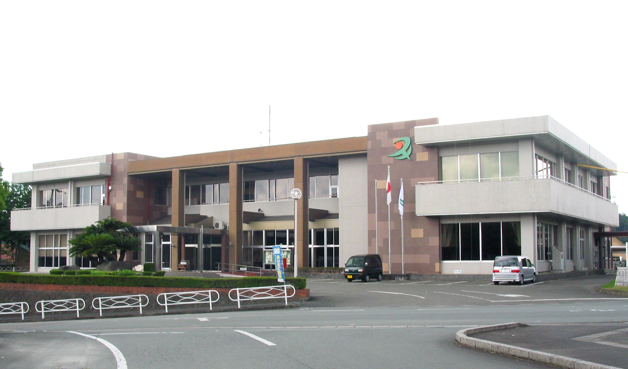 Taki townhall I took this image at Ōka Taki Taki, Mie Pref., Japan.